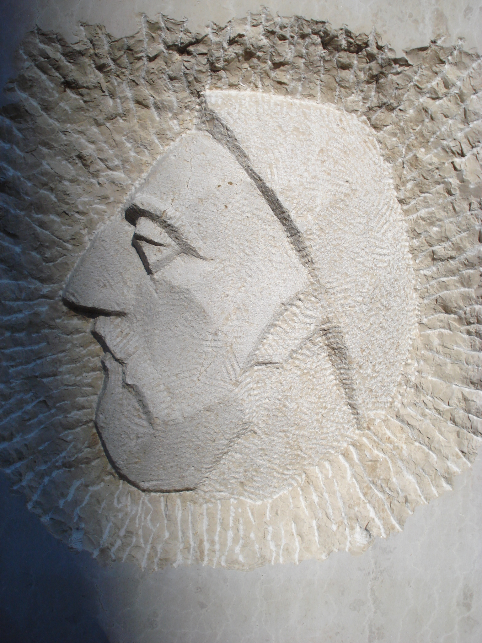 Borna (*?; †821), Knez of Croatia (ruling prince/duke of medieval Principality of Littoral Croatia) - monument in the town of Otočac, Lika-Senj County (Author: Bronda Biondić)